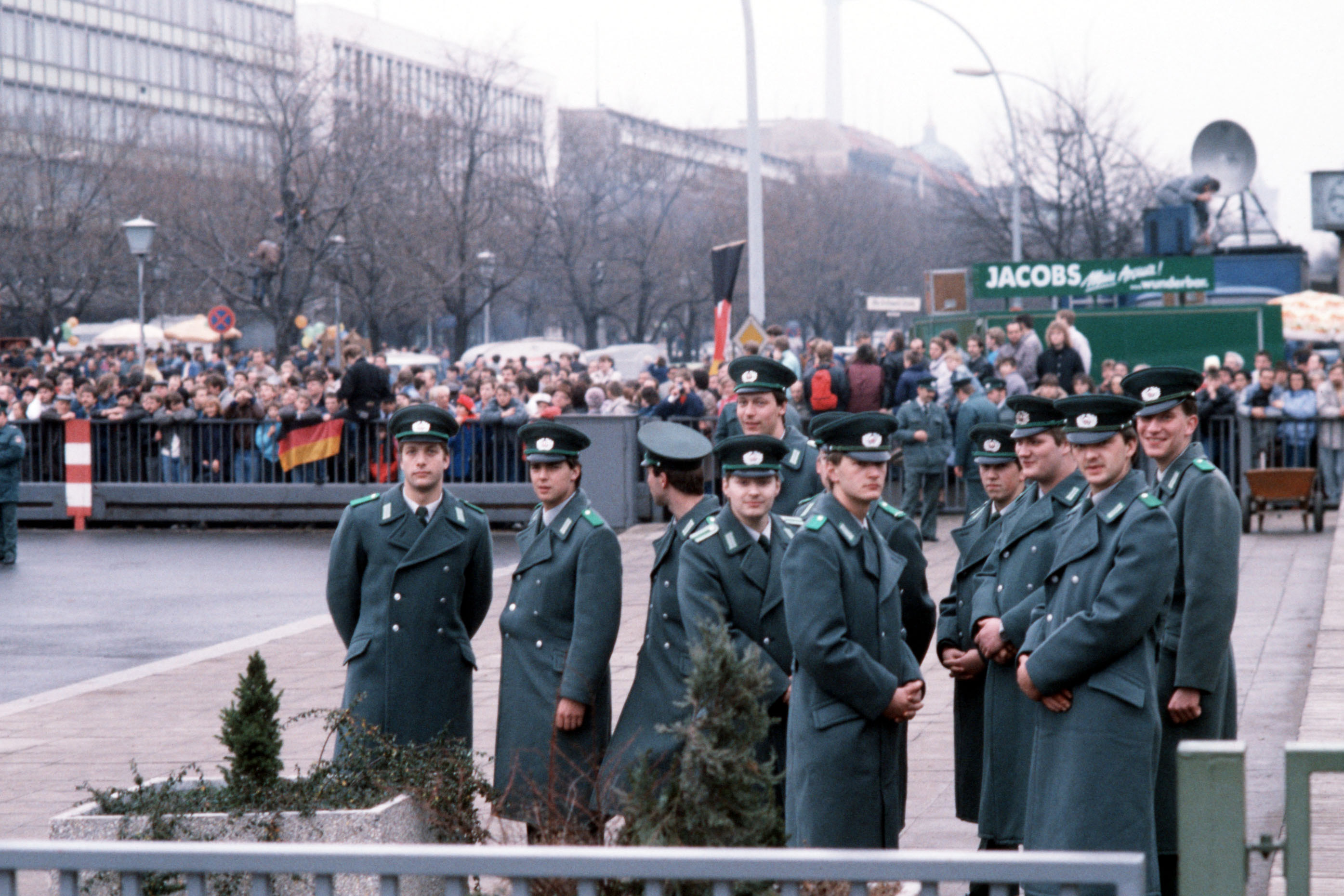 Police personnel (NCOs and enlisted men) of the East German Volkspolizei wait for the official opening of the Brandenburg Gate december 22nd 1989. (Original text "East German guards wait for the official opening of the Brandenburg Gate" and the title is wrong: These are not officers of the border guards (Grenztruppen der DDR), but the support and rapid reaction units of the police (Bereitschaftspolizei der Volkspolizei). These were used as additional support for special events.)